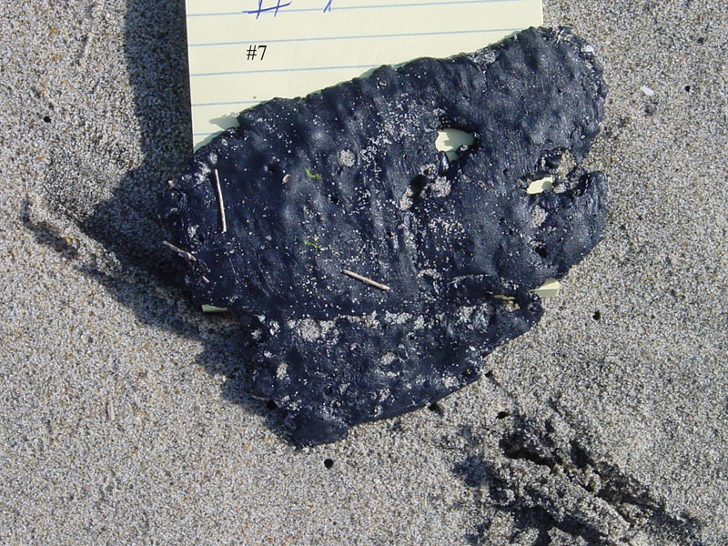 This tar ball, collected at Moss Landing State Beach on February 14, 2007, by volunteers John Hostettler and Bob Seese, may have originated from a seep in the offshore Santa Maria basin west of Casmalia. From